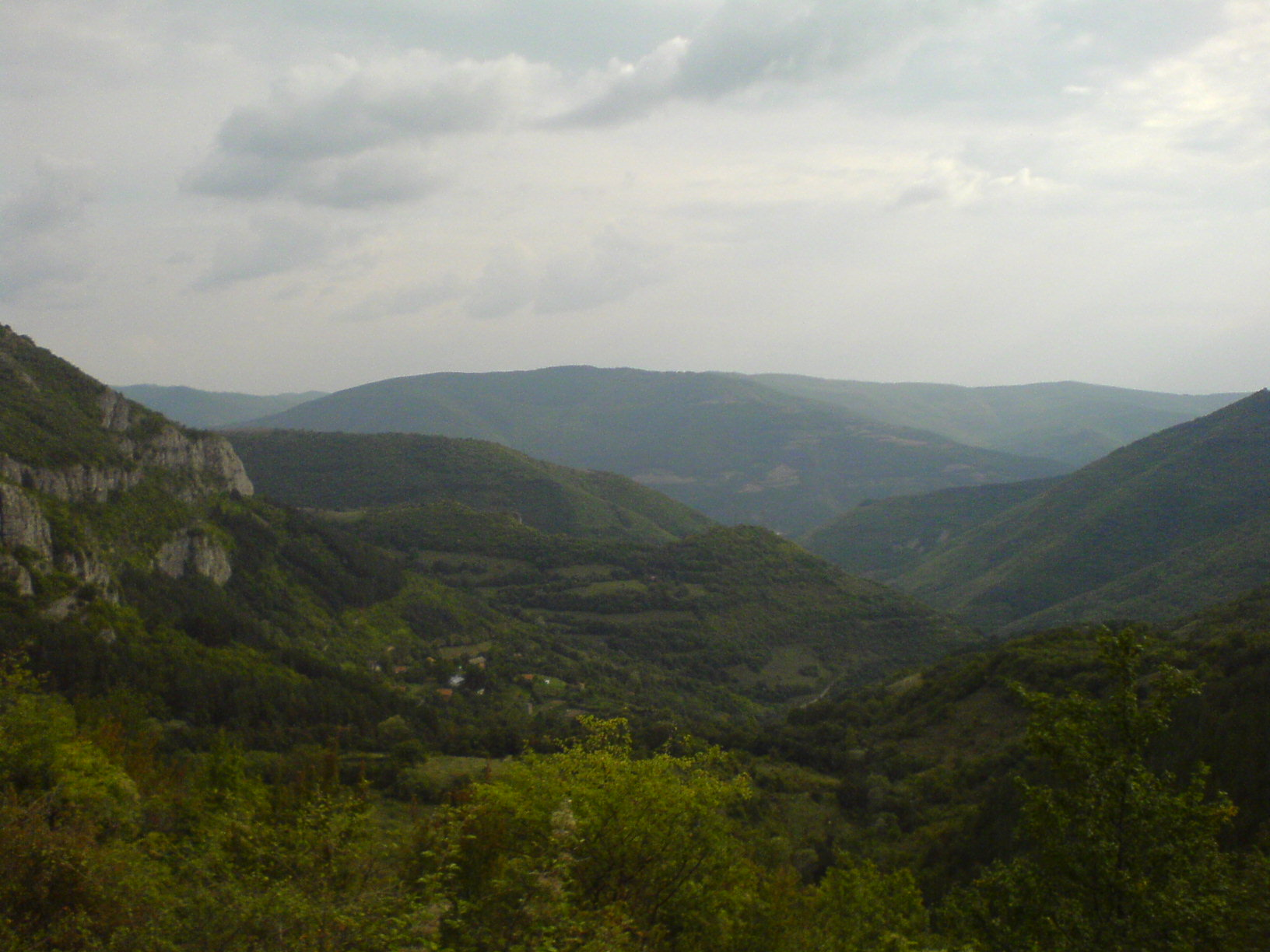 Village Dobravitsa, near city Svoge, Bulgaria.